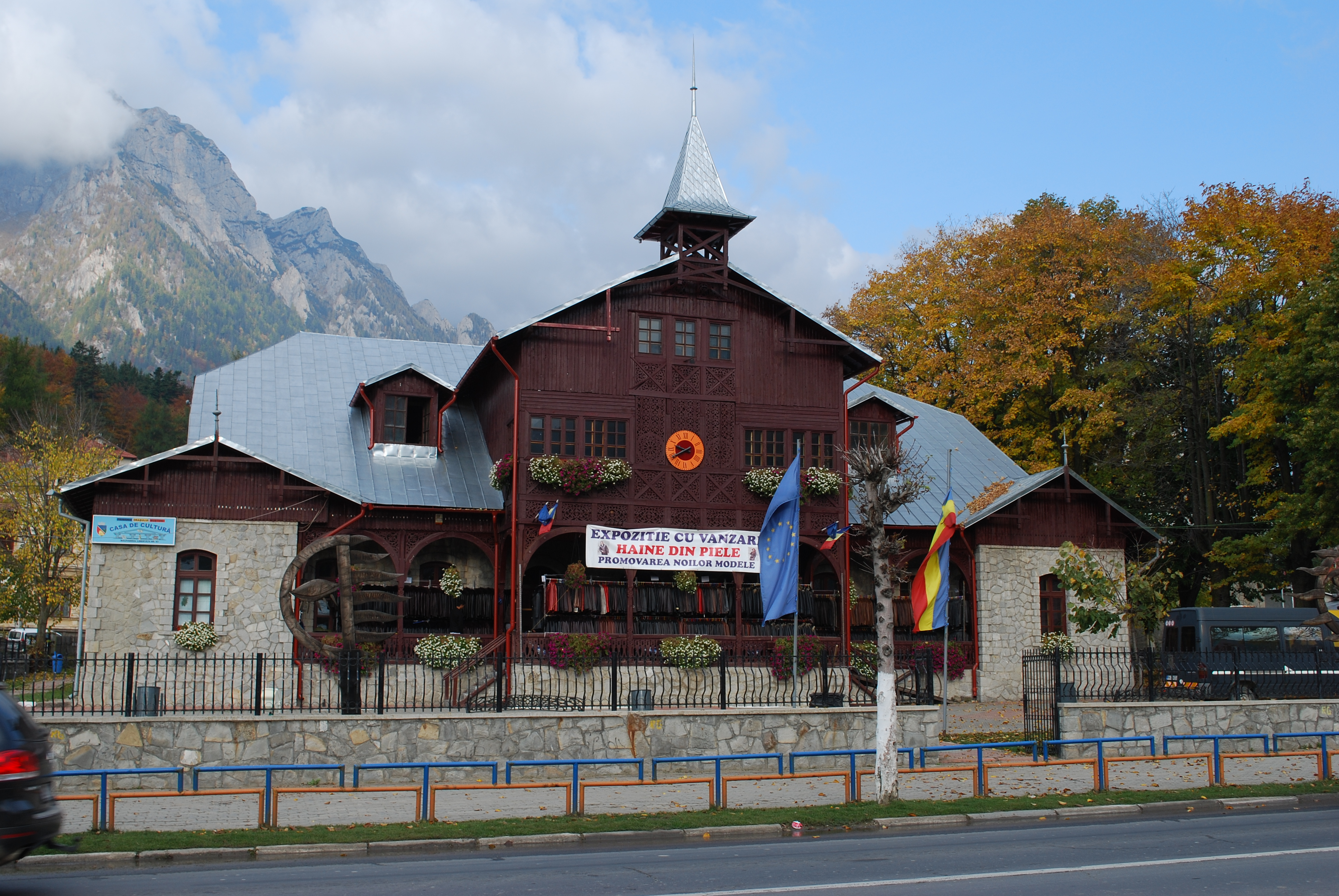 The cultural center in Buşteni, Prahova County, Romania